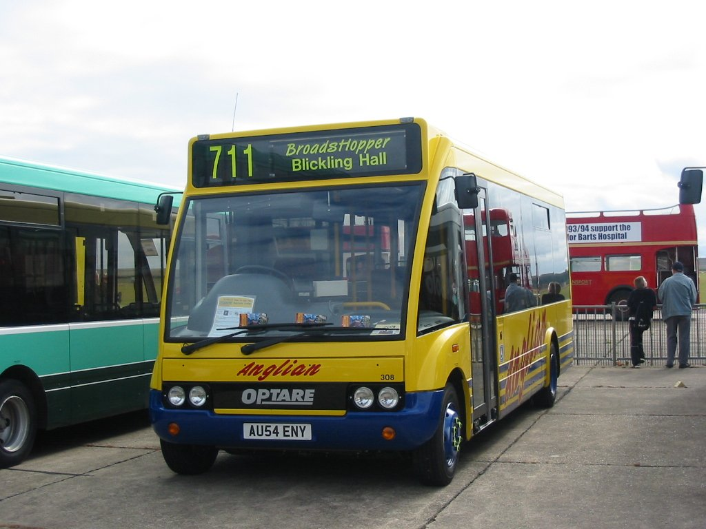 Anglian Coaches 308 AU54ENY